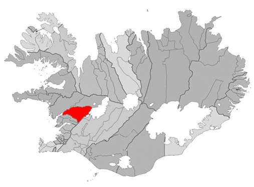 Based on Municipalities of Iceland.png.